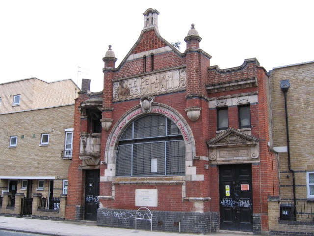 Pelham Mission Hall, Lambeth Walk. A curious building with an outside pulpit! Closed as a church sometime around 1970, was apparently used as a sculpture studio at one time but appeared disused when I snapped it in 2005.